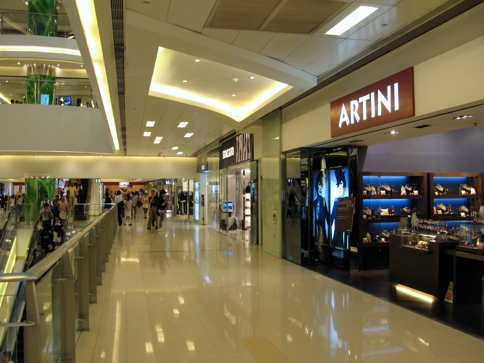 New Town Plaza Phase 1 Level 4 West